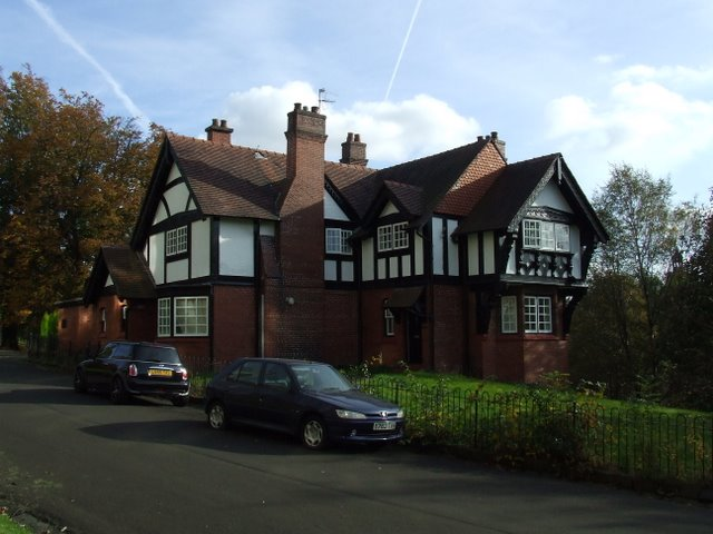 Sunlight Cottages. Gifted to Glasgow Corporation by Lever Bros. after the Great Exhibition of 1901. See also 1544458.